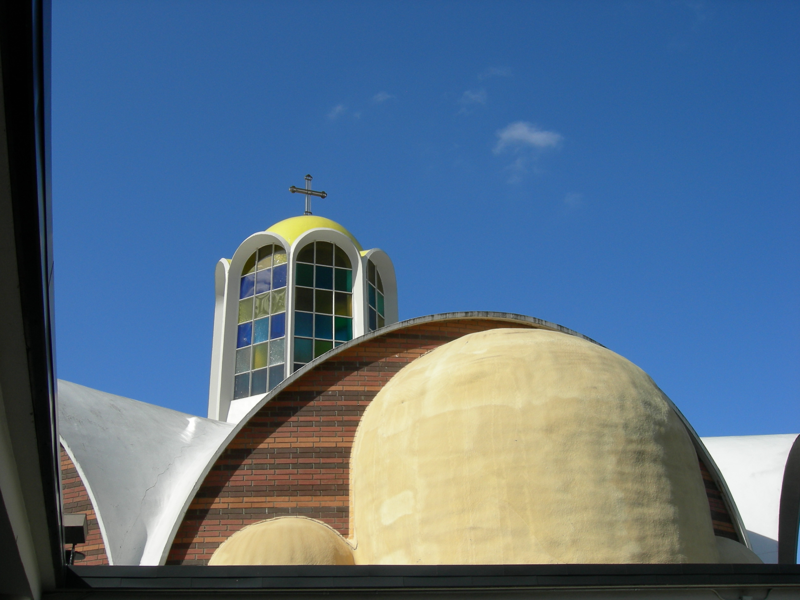 St. Demetrios Greek Orthodox Church (designed by Paul Thiry, constructed 1964–1968); site of the annual St. Demetrios Greek Festival, Seattle, Washington